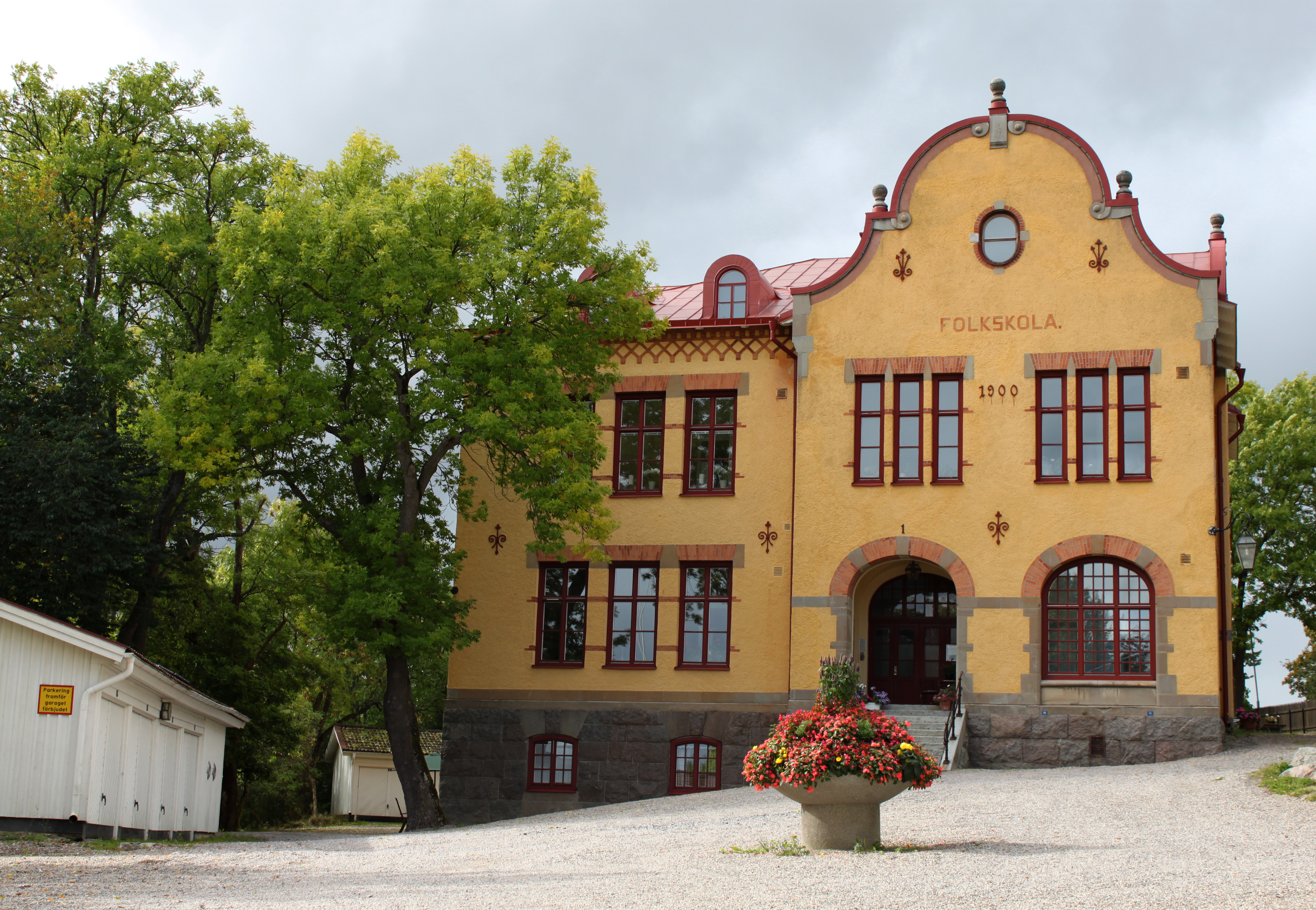 School